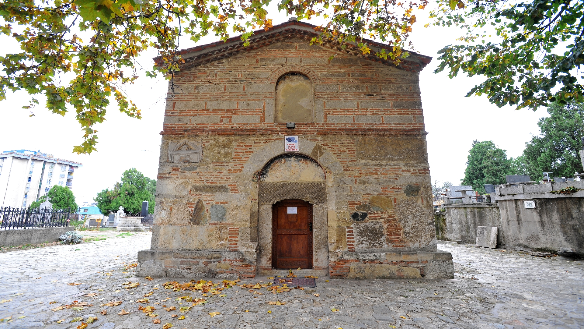 Church of the Dormition of the Holy Virgin on Old Smederevo cemetery, entrance